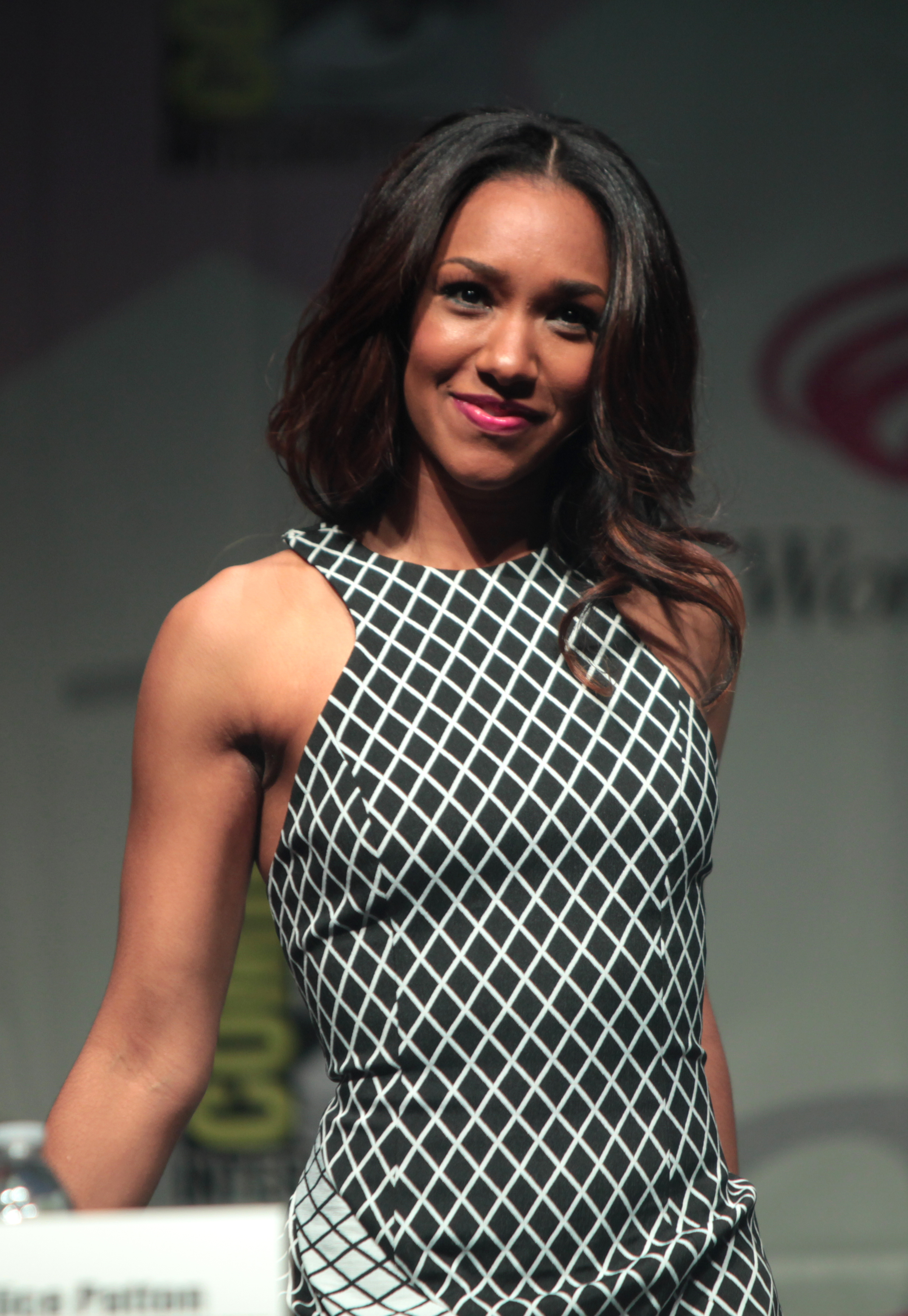 Candice Patton speaking at the 2015 Wondercon, for "The Flash", at the Anaheim Convention Center in Anaheim, California.